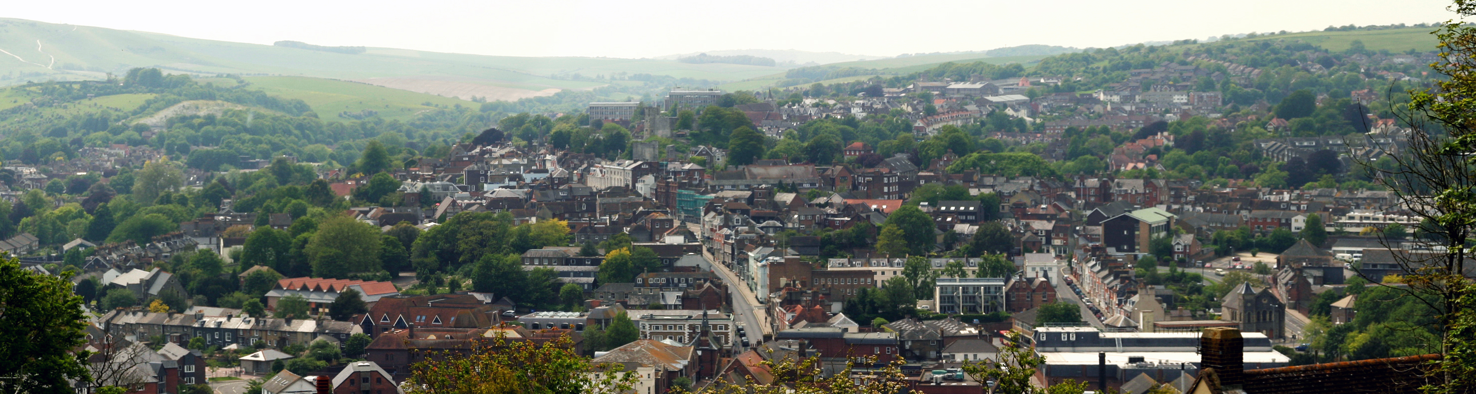 Picture of Lewes by Anders Almaas